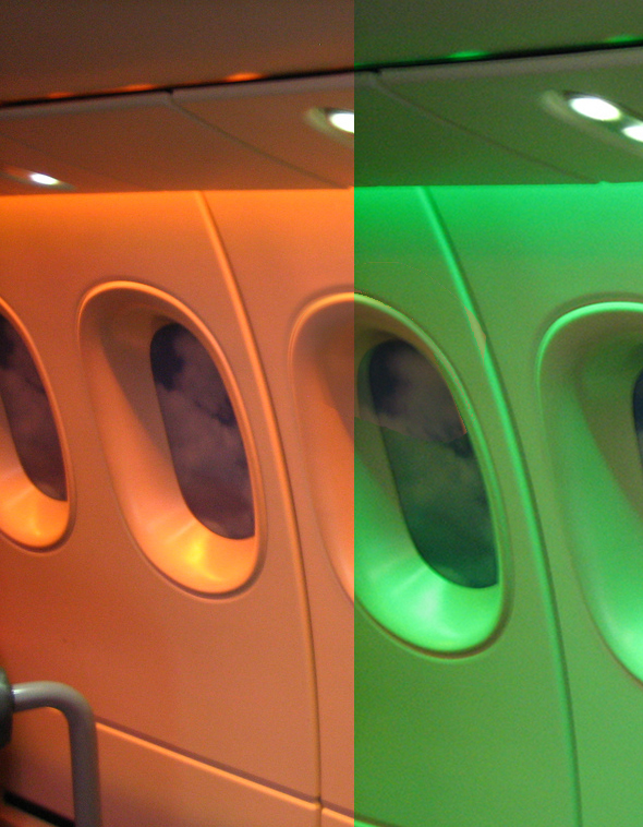 Contrast view of 2 of the hundreds of different LED light combinations offered on the 787